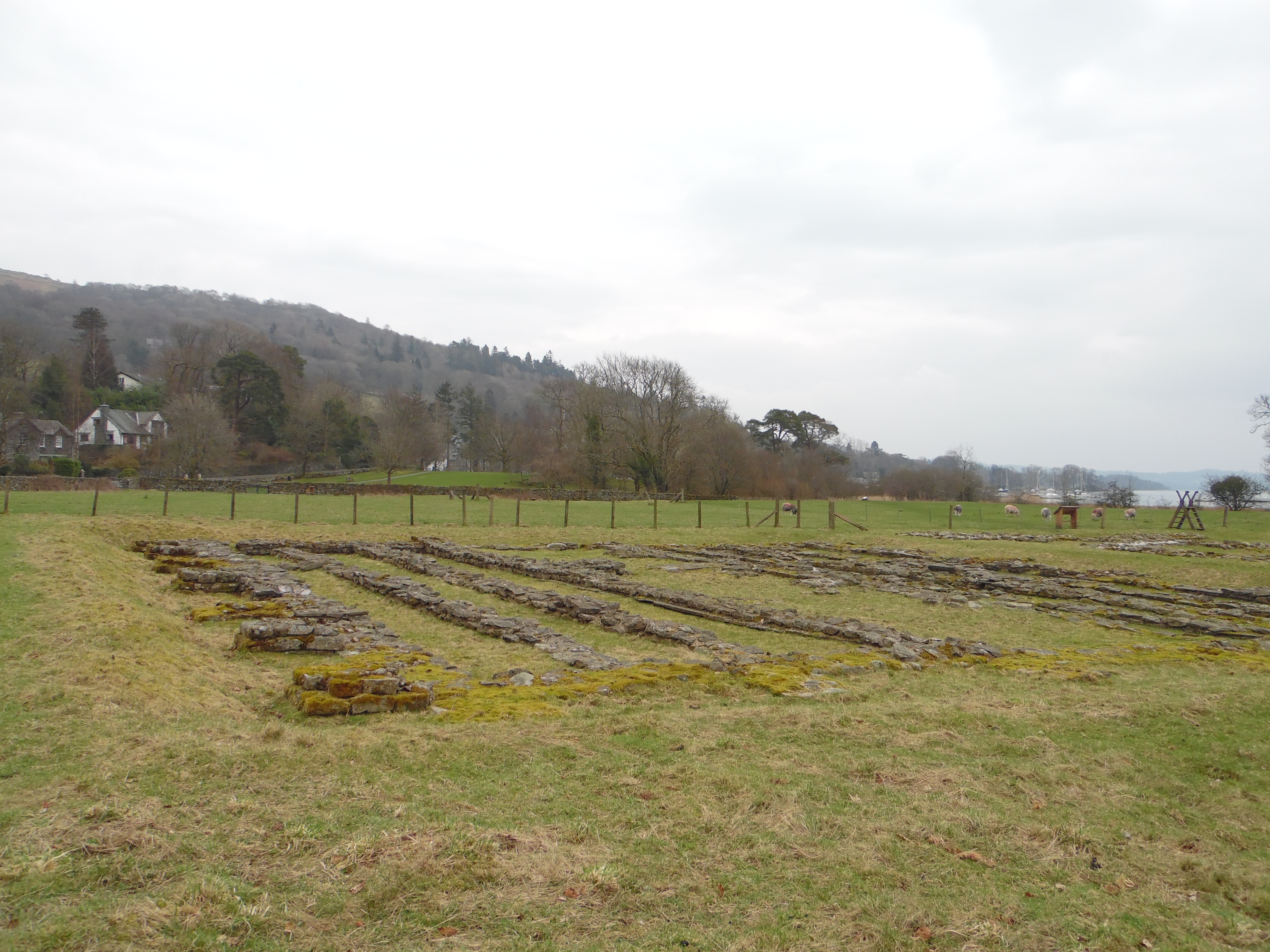 Remains of the Galava Roman fort, just outside Ambleside. Cumbria, England.